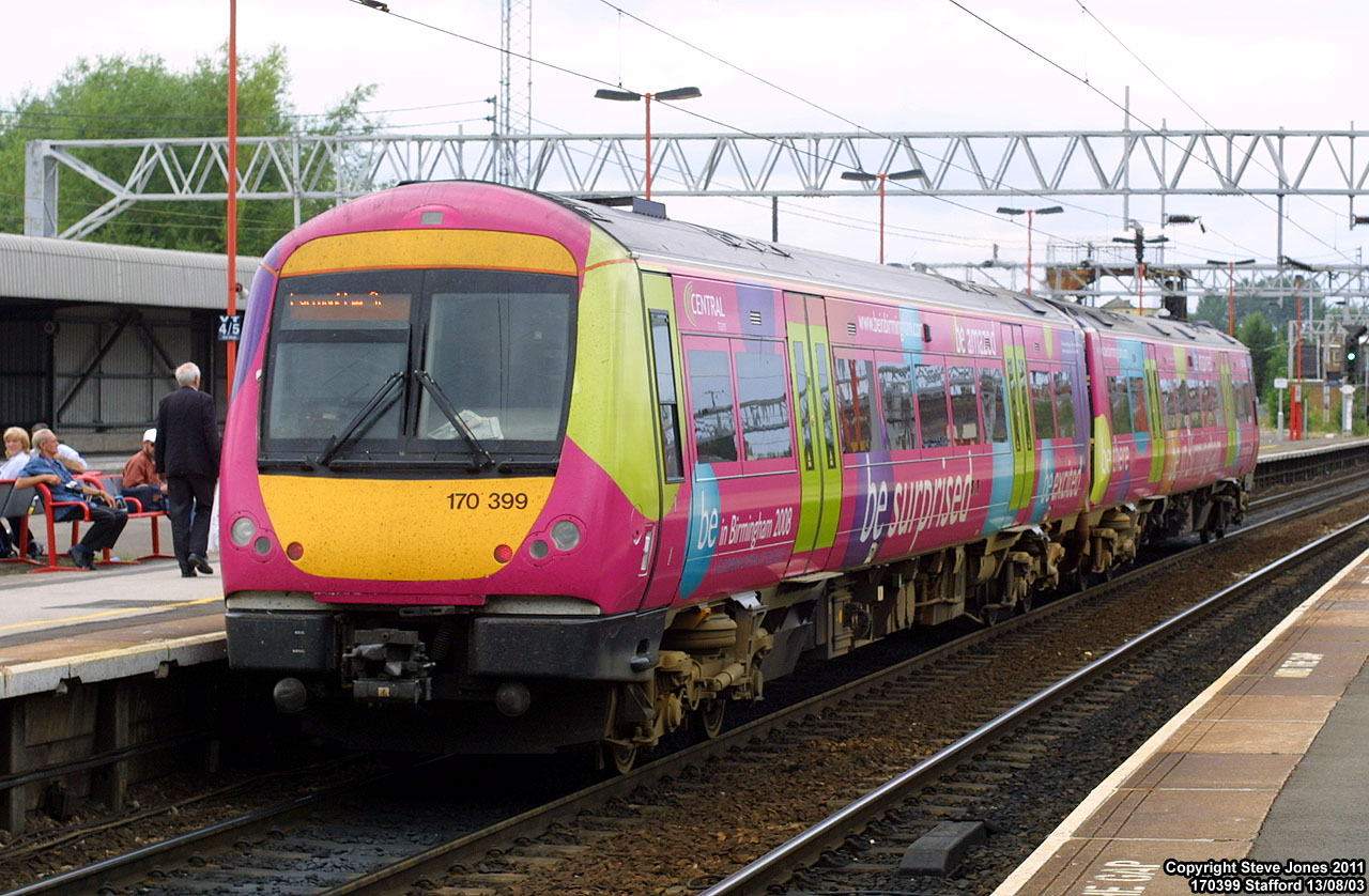 170399 at Stafford on 13/08/03